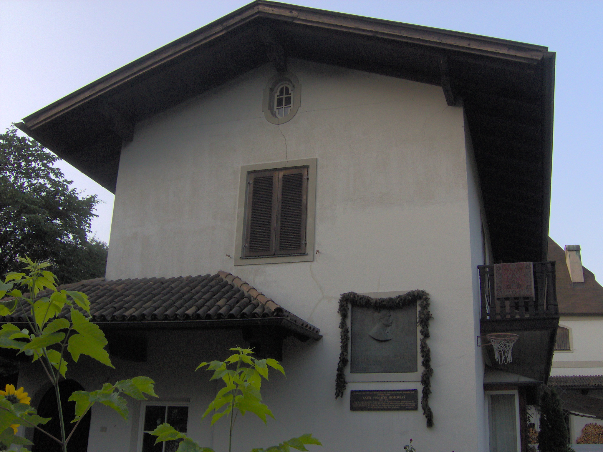 House of Karel Havlíček Borovský in Brixen.